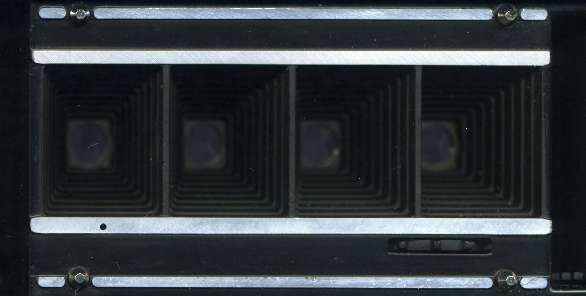 The film chamber of the Nimslo quadralens camera from 1980. In fairly pristine condition.